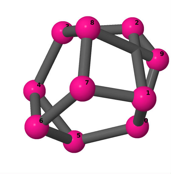 One of 19 simple cubic graphs with 10 vertices.